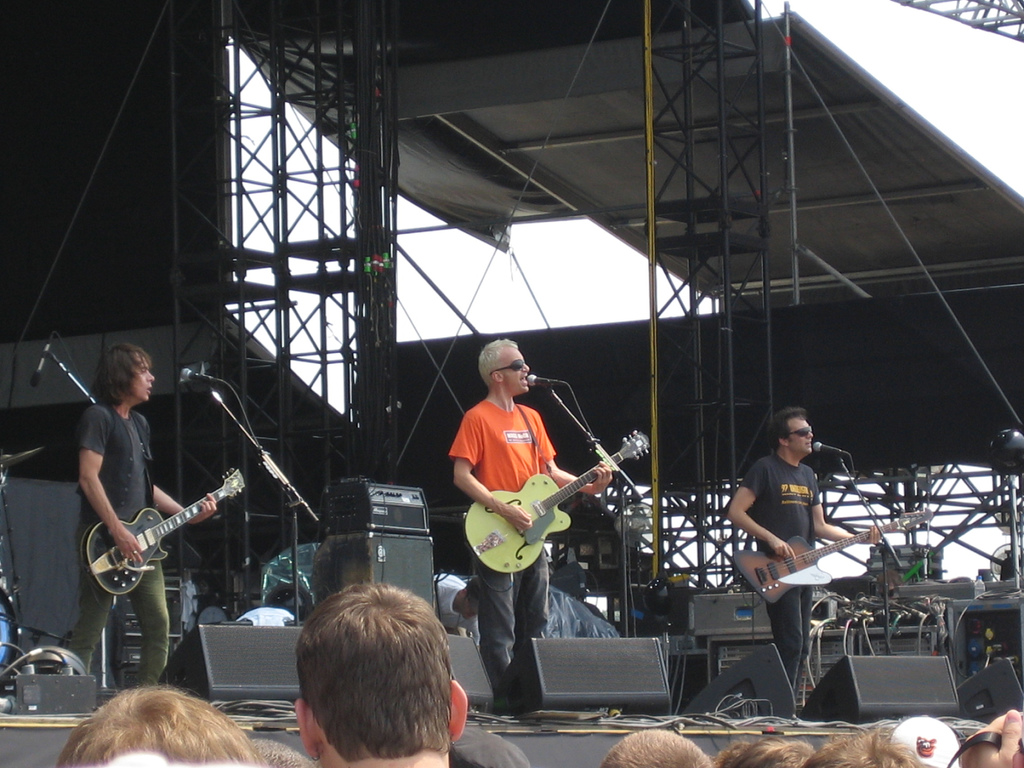 Fountains of Wayne live in Baltimore